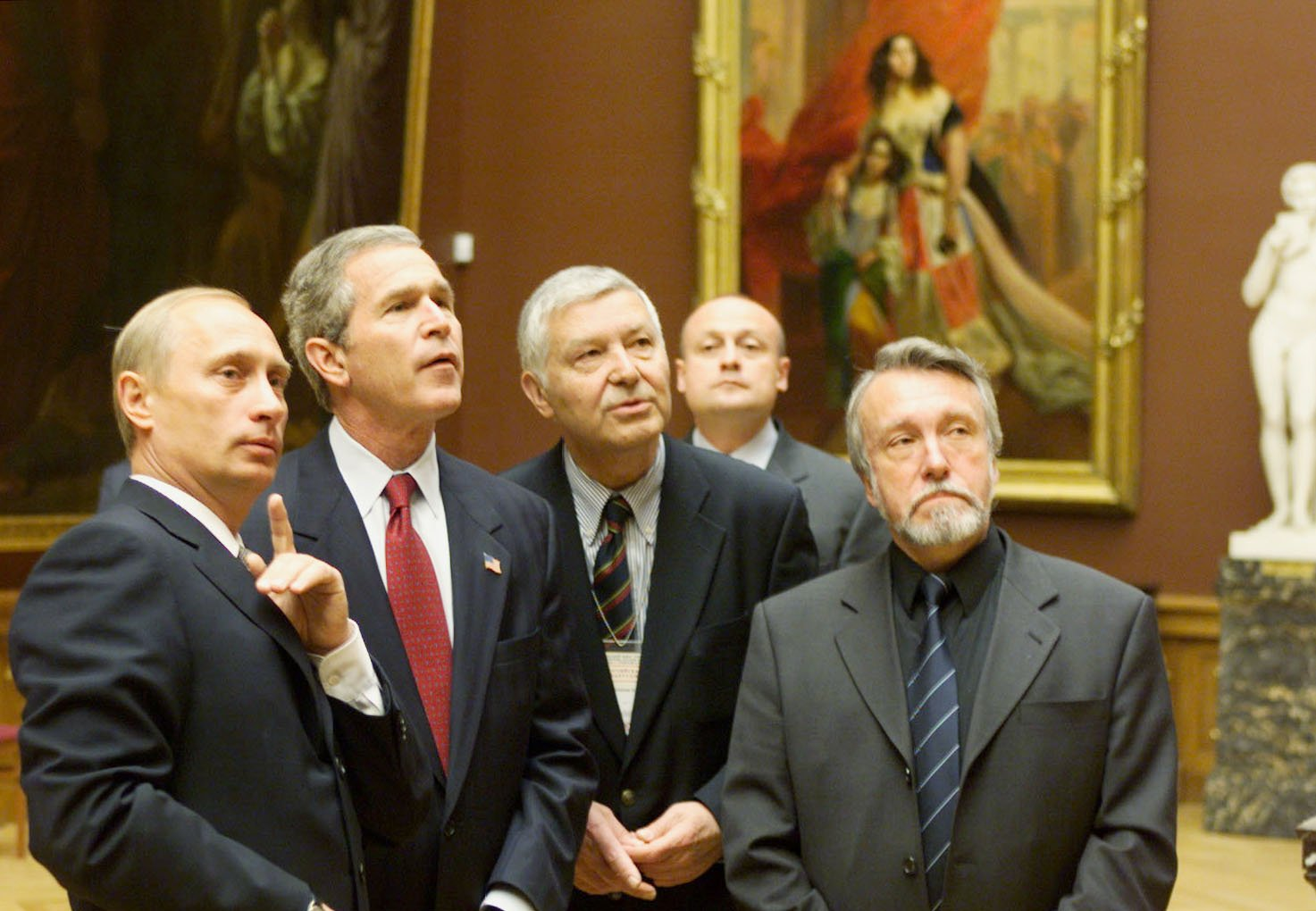 ST PETERSBURG. Visiting the Russian Museum. President Putin enjoying the exhibition with US President George Bush and Museum Director Vladimir Gusev (right).